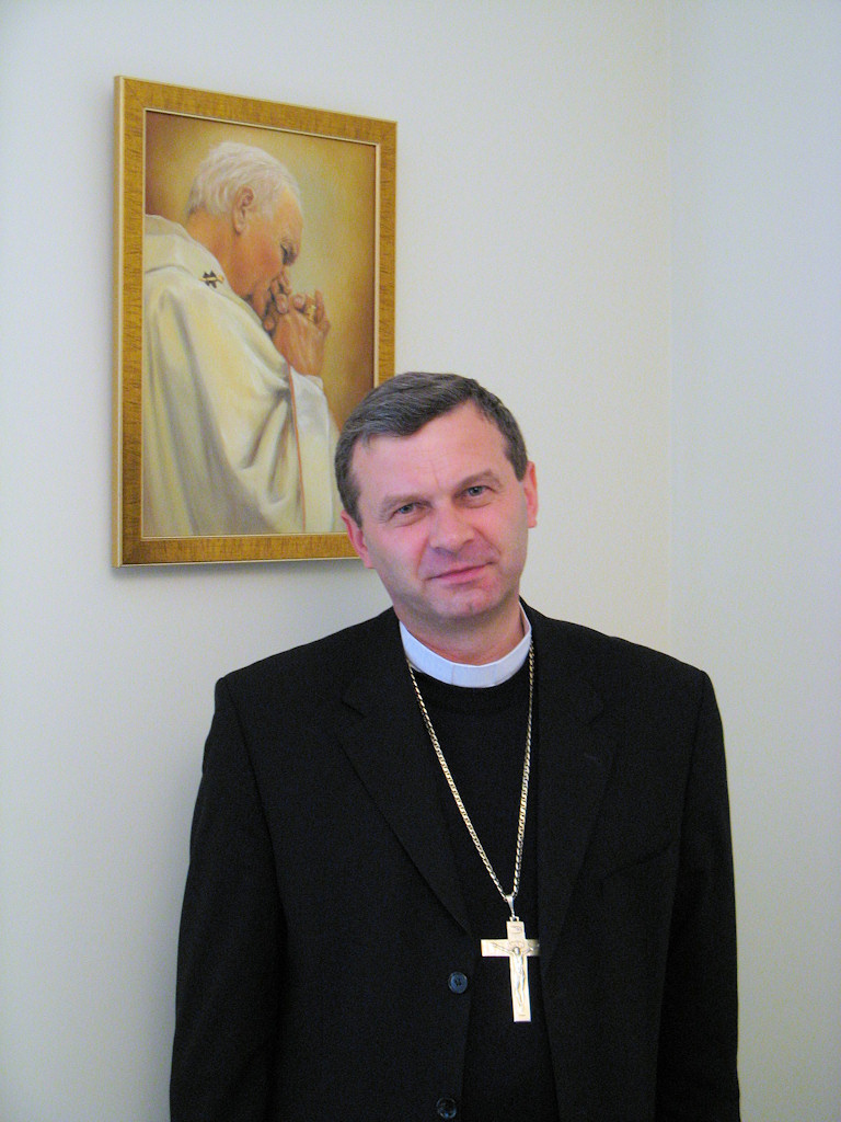 Tadeusz Bronakowski - Polish suffragan bishop of Roman Catholic Diocese of Łomża